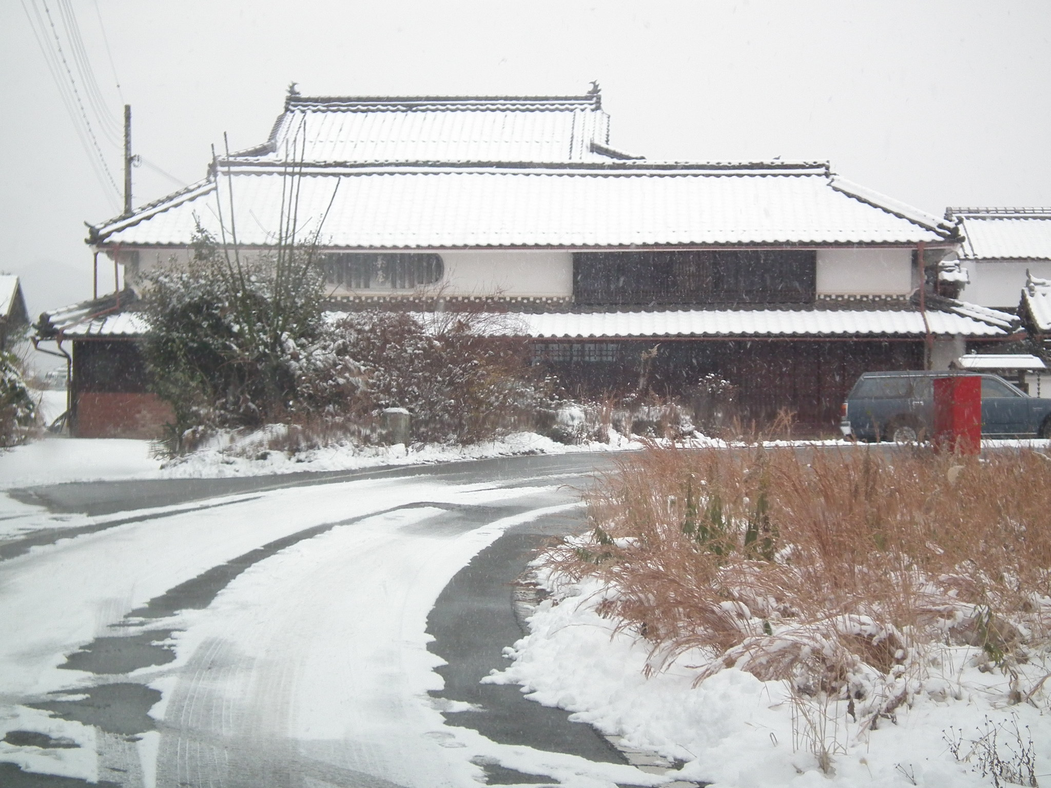 Jubei-chaya